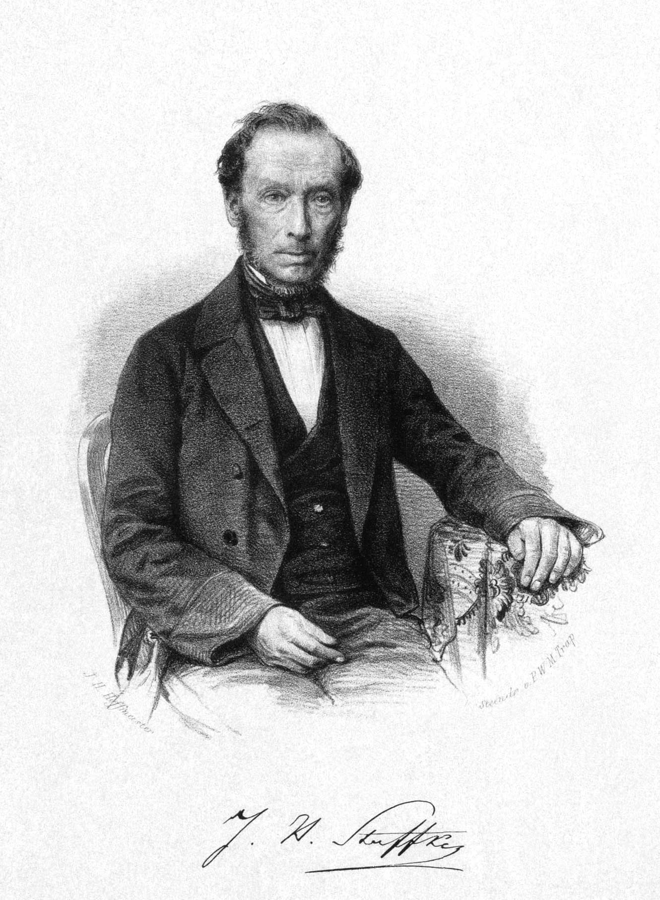 Johan Hendrik Stuffken (1801-1881), professor philosophy Leiden University